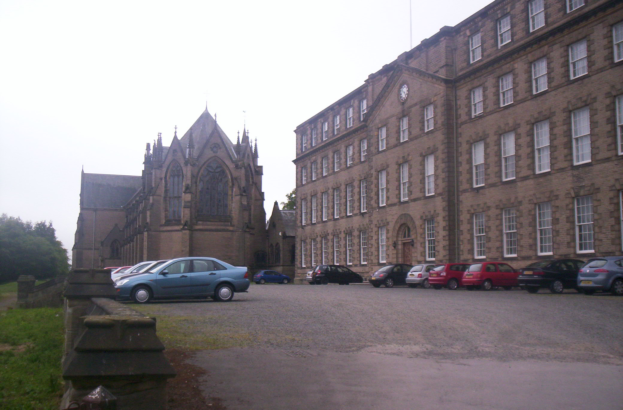 Ushaw College. Durham